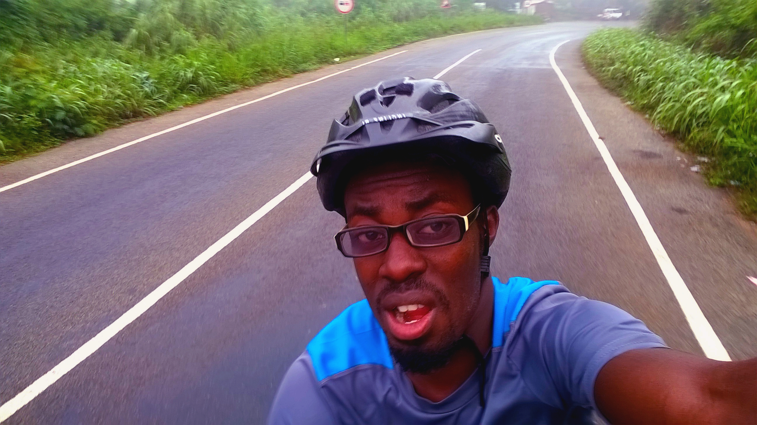 Volunteering for The Ghana Cleft Foundation